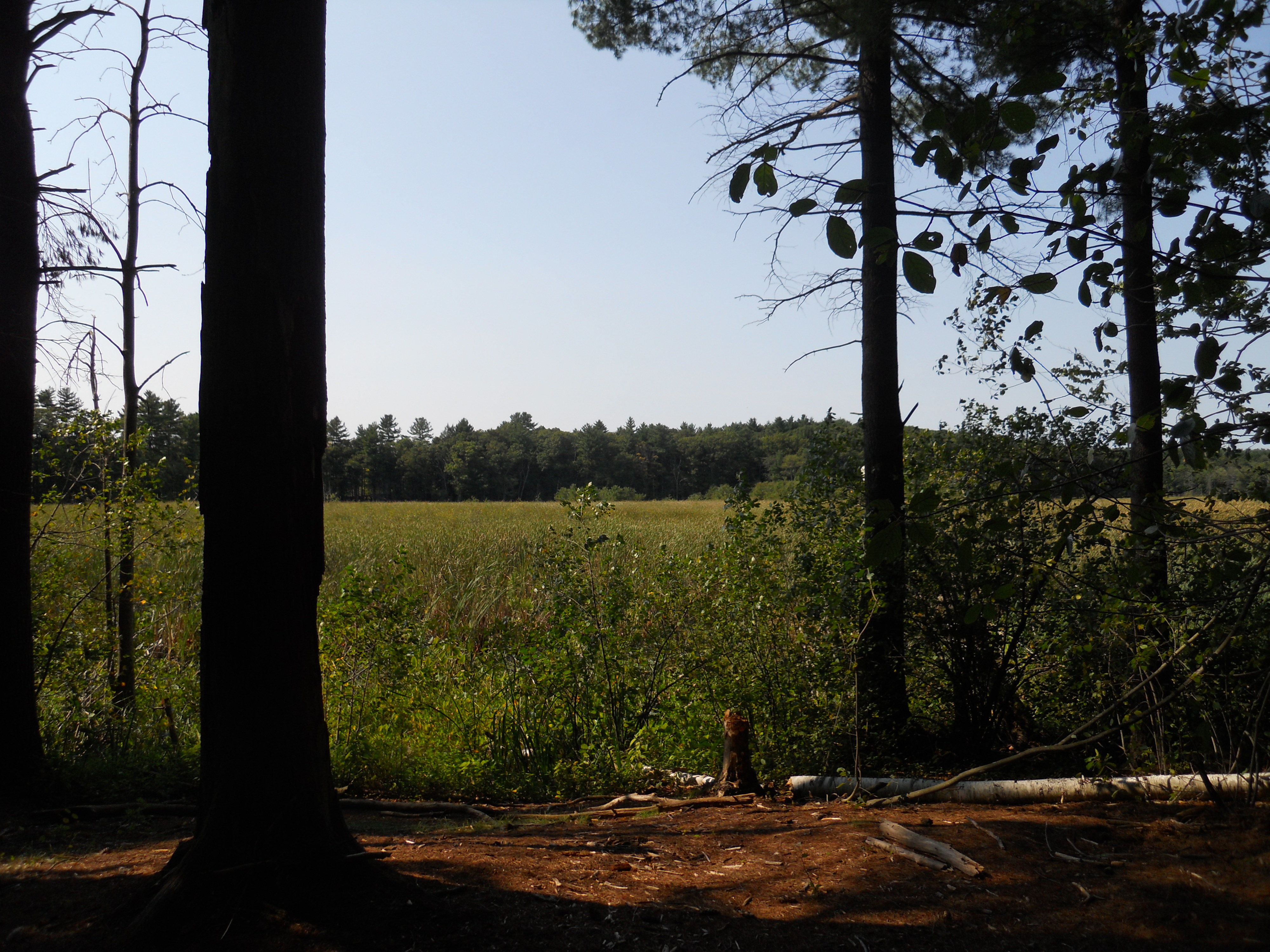 View of Averill's Island across Hassocky Meadow, a swamp. The Ipswich River is on the far side of the island.